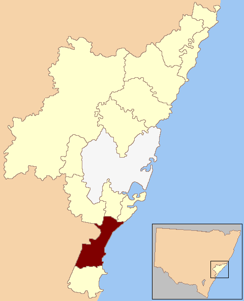 Location of the Australian House of Representatives Division within the region surrounding Sydney in New South Wales, as it existed at the 2004 election.